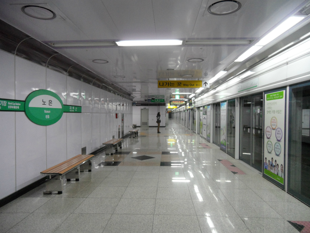 Noeun Station's platform